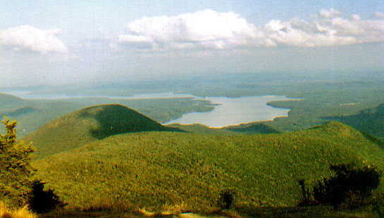 Photographed by Daniel Case 1998-08-08. Print scanned 2006-06-28.